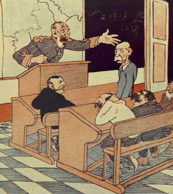 De la examenele politice ("From the political exams"), cartoon published by Furnica magazine, and depicting the relationship between Romania's Conservative Party and King Carol I of Romania as one between students and their teacher. Carol, who has the prerogative of naming the Prime Minister, asks Conservative leader Petre P. Carp (standing) about "the shortest way for one to reach power"; Carp answers, "by way of the Palace". The backbenches accommodate figures of the breakaway Conservative-Democratic Party, laughing off Carp's ambitions. They are, from left: Take Ionescu, Alexandru Bădărău, Nicolae Fleva. Sitting next to Carp, and turned over to shush the Conservative-Democratic naysayers, is Carp's favorite Alexandru Marghiloman.